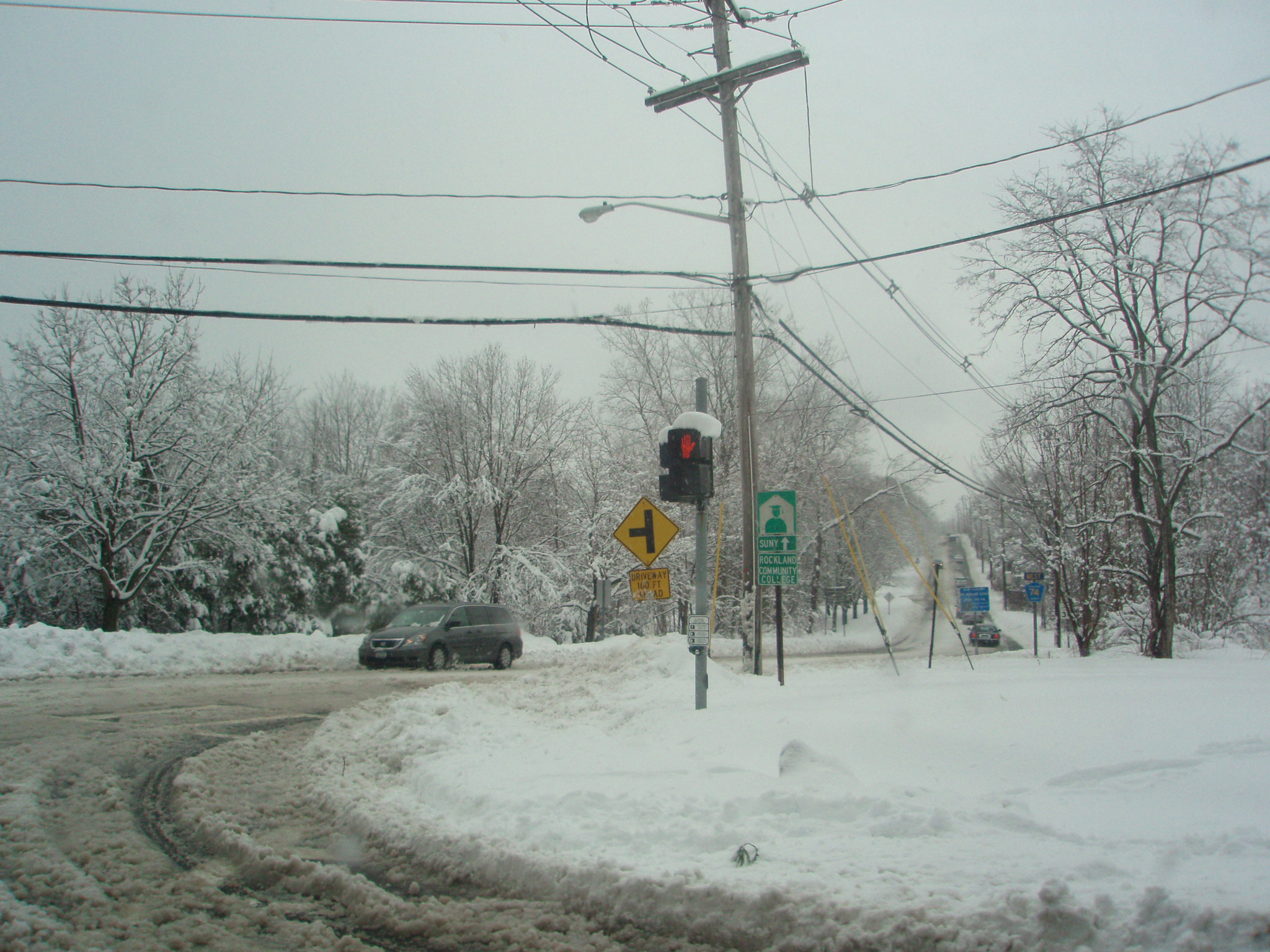 Snow Storm in Viola, New York